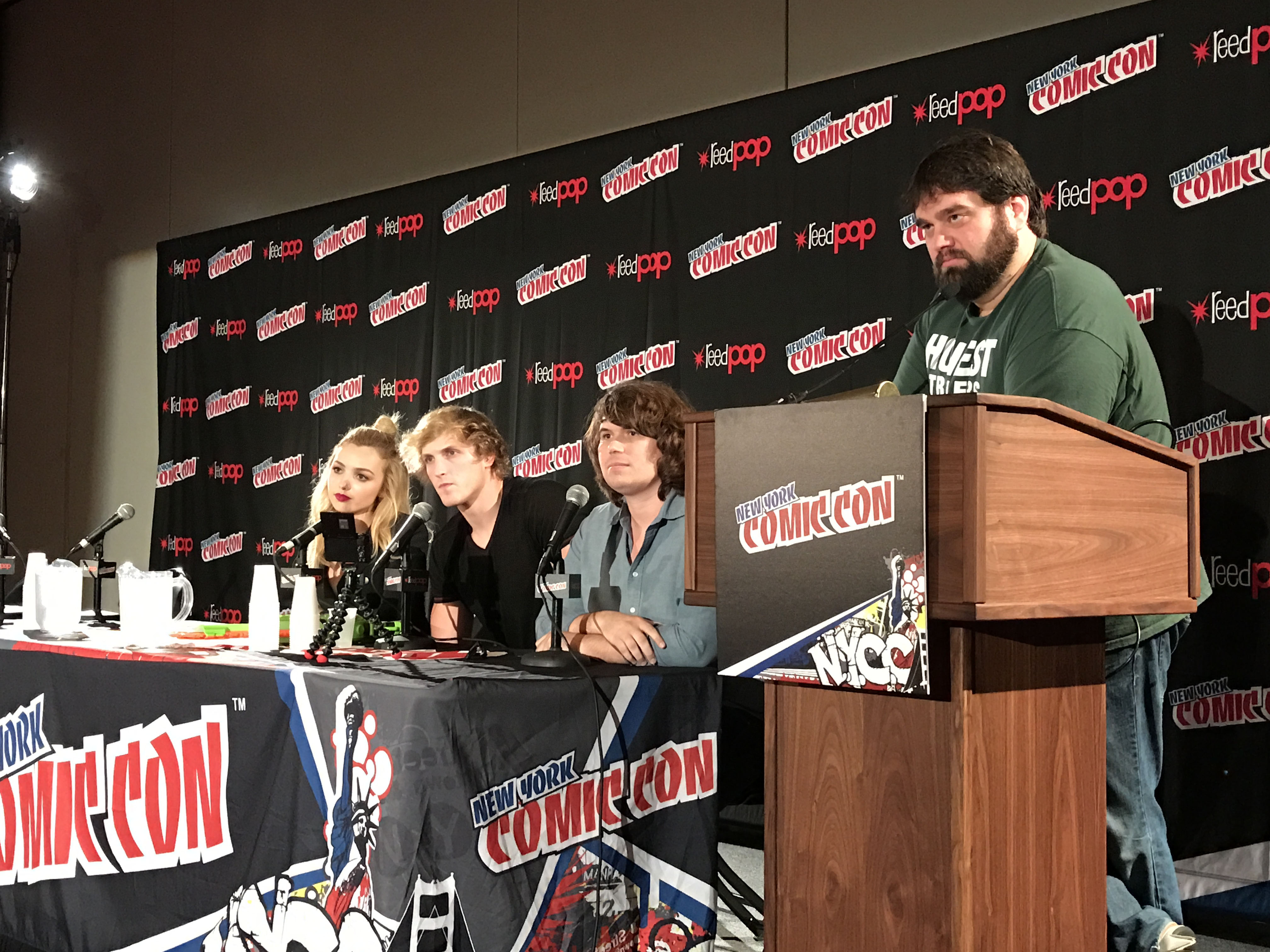 Panel discussion devoted to the 2016 film The Thinning at the Jacob K. Javits Convention Center in Manhattan, on Saturday October 8, 2016, Day 3 of the 2016 New York Comic Con. From left to right are: Actress Peyton List, actor Logan Paul, writer/director Michael Gallagher and serving as moderator at the podium, Andy Signore. This photo was created by Luigi Novi. It is not in the public domain, and use of this file outside of the licensing terms is a copyright violation.